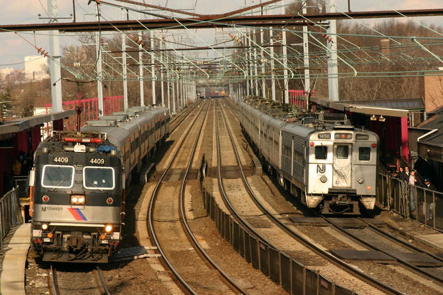 An eastbound NJT Arrow III set departs Elizabeth as NJT ALP-44 #4409 waits at the other platform.